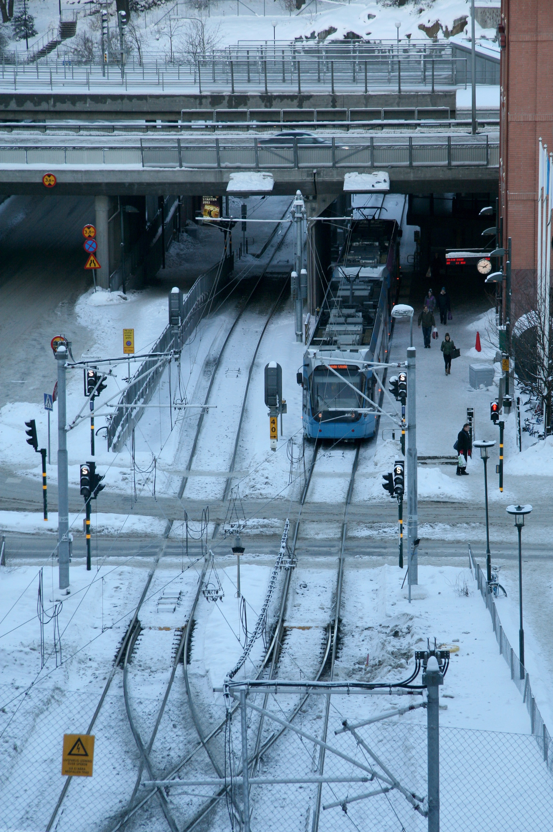 Alvik - Tvärbanan's stop